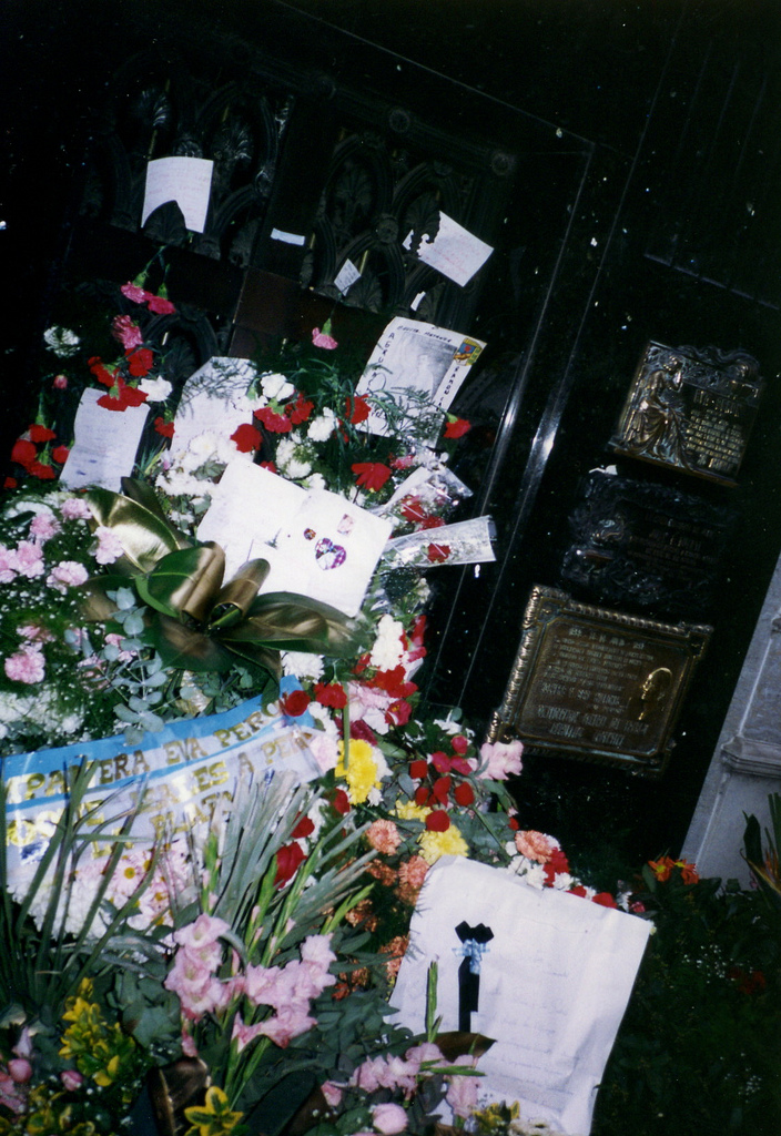 Picture of Eva Peron's tomb in Recoleta